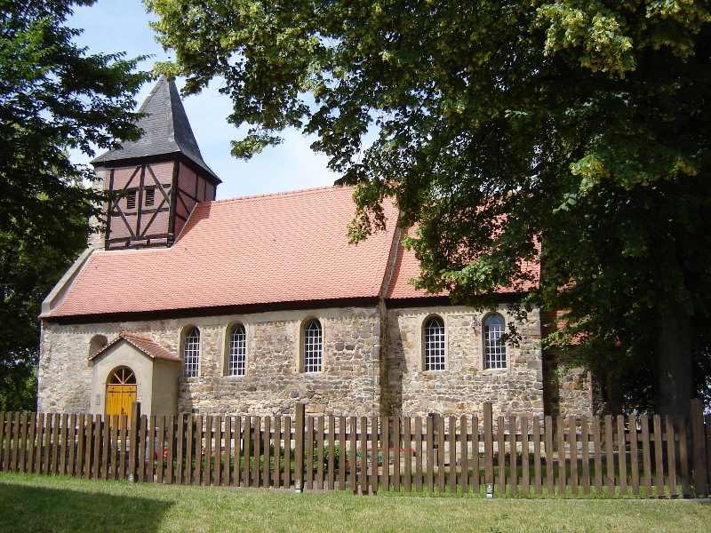 Protestant church in Wallwitz (Saxony-Anhalt)